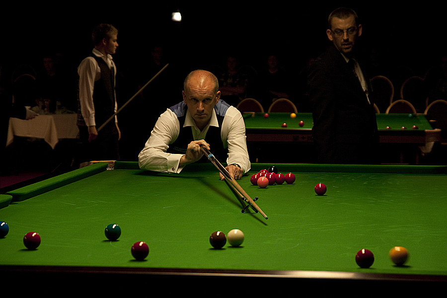 Peter Ebdon in the EPTC 2 event in Belgium 2010